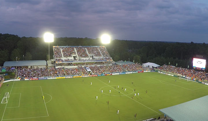 Drone view of WakeMed Soccer Park during the match between the Carolina RailHawks (now North Carolina FC) and West Ham United on July 12, 2016.